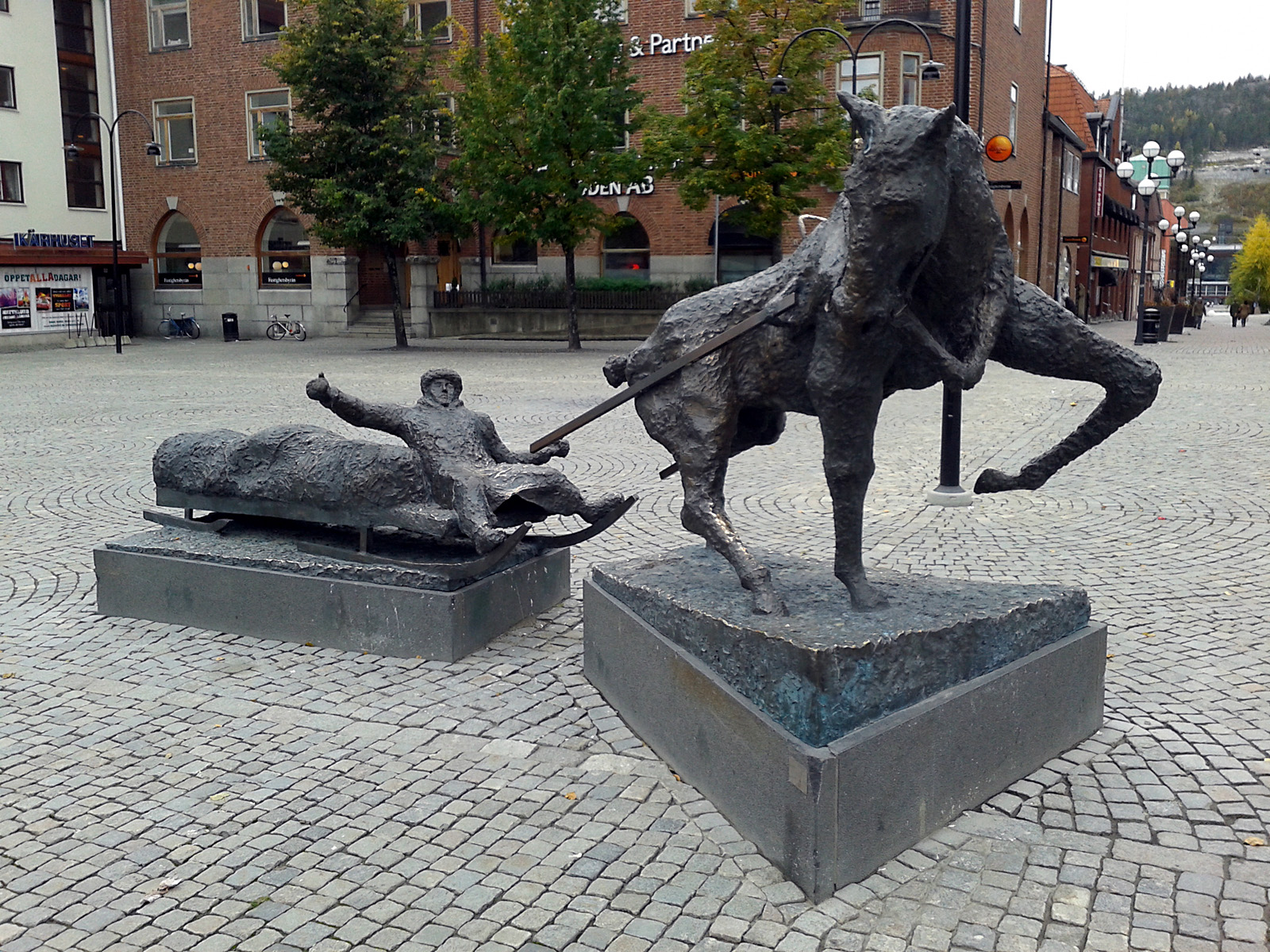 Sörköraren, a sculpture by Asmund Arle, located in Örnsköldsvik, Sweden.